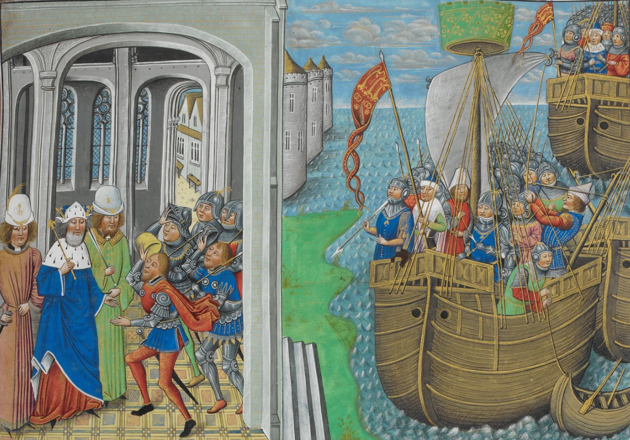 English ships arriving at Lisbon, capital of the Kingdom of Portugal, and the audience of the English envoys.